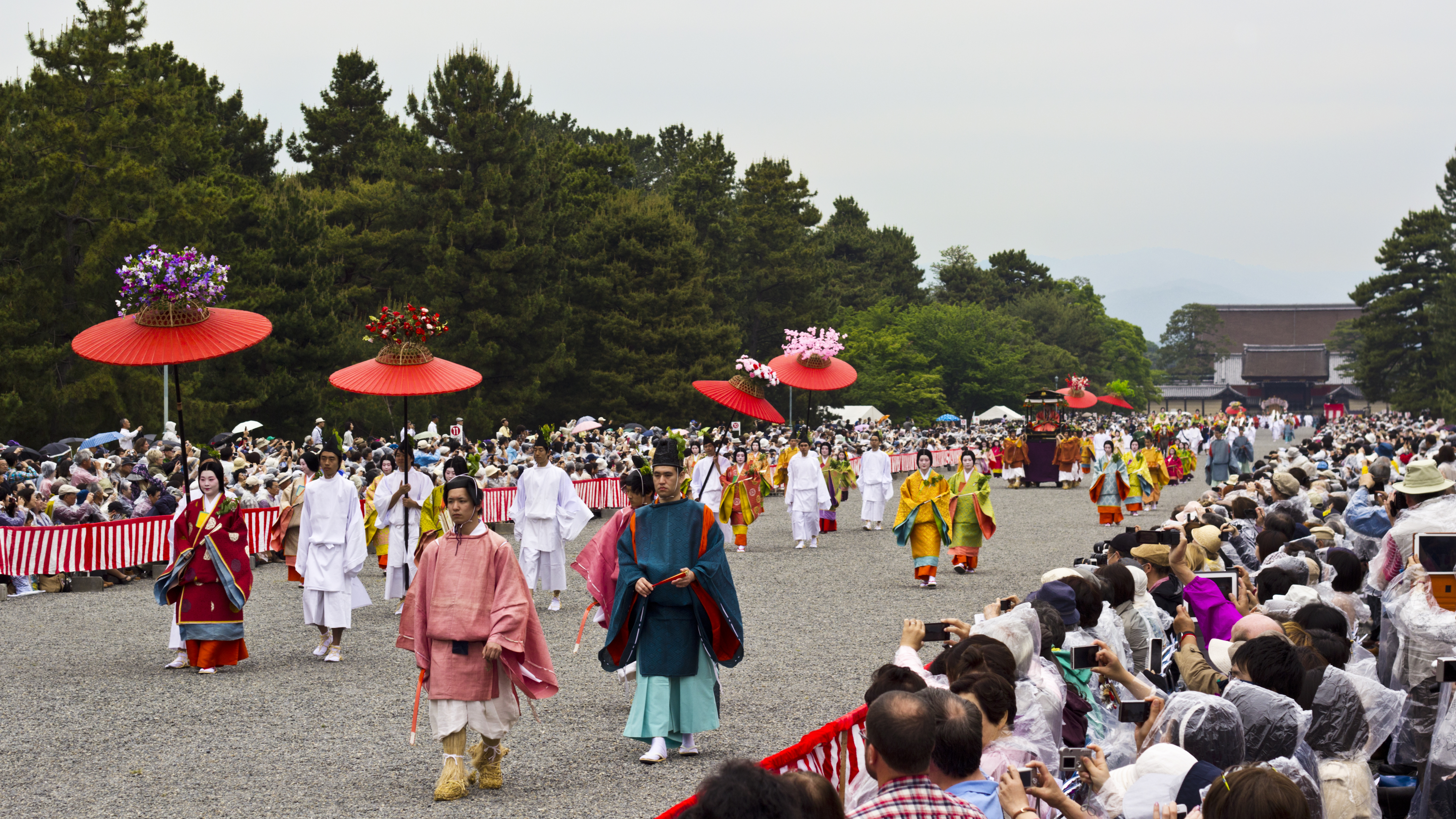 Aoi Matsuri (Hollyhock Festival) in Gyoen (Gosho in the background), Kyoto.